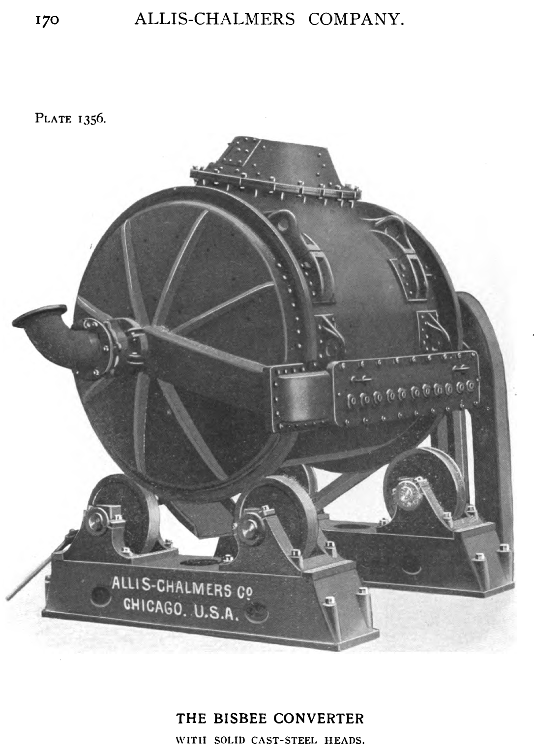 Allis-Chalmers Bisbee converter for smelting copper ore. Plate 1356 from Allis-Chalmers Catalogue Issue 3, Edition 6, 1902, page 170.